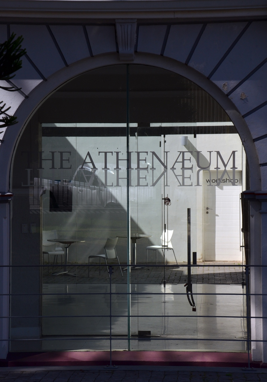 The recently renovated Athenaeum and Little Theater are become re-established as active hubs of the creative arts in Nelson Mandela bay. This media shows a South African Protected Site with SAHRA file reference 9/2/073/0030.